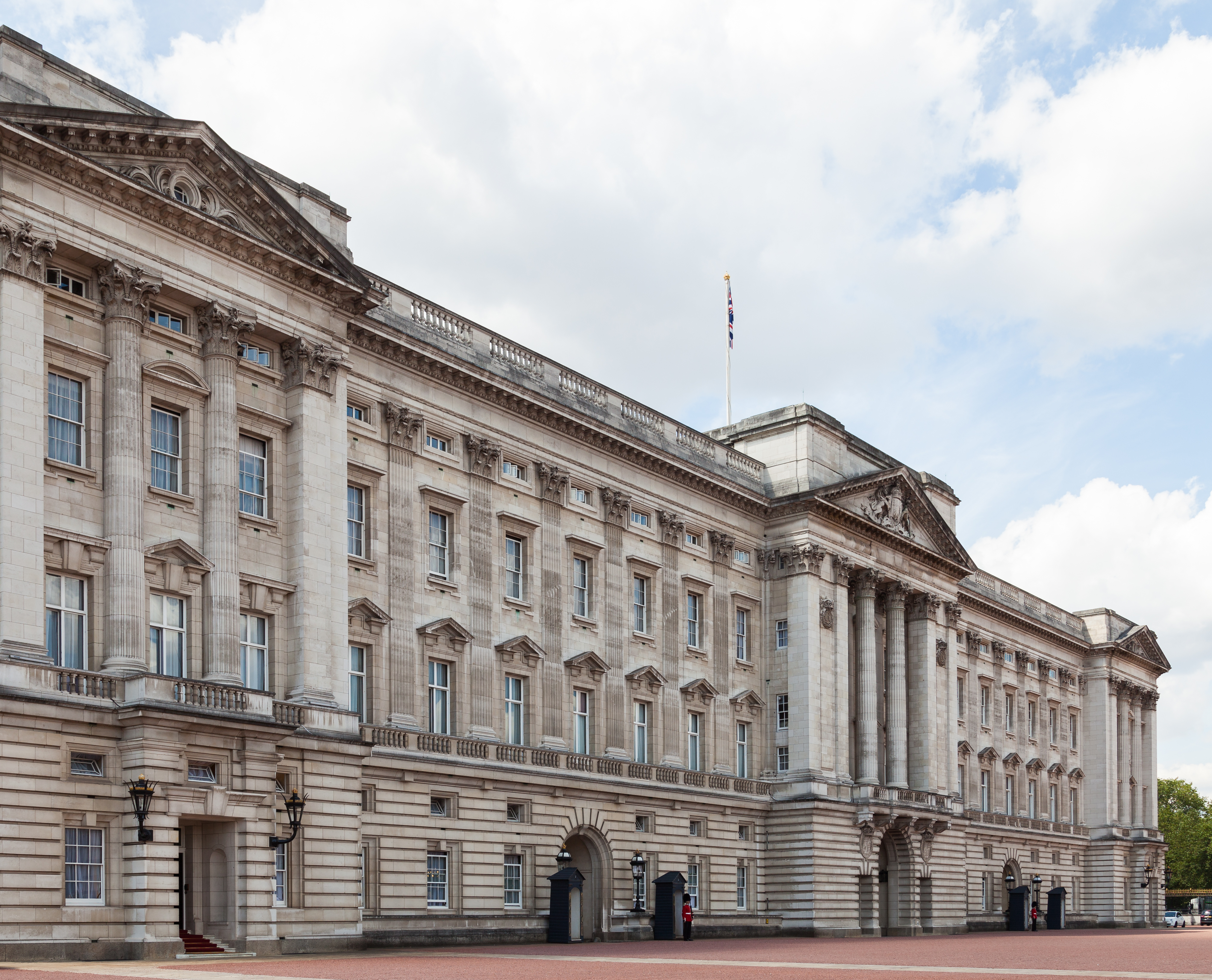 Buckingham Palace, London, England